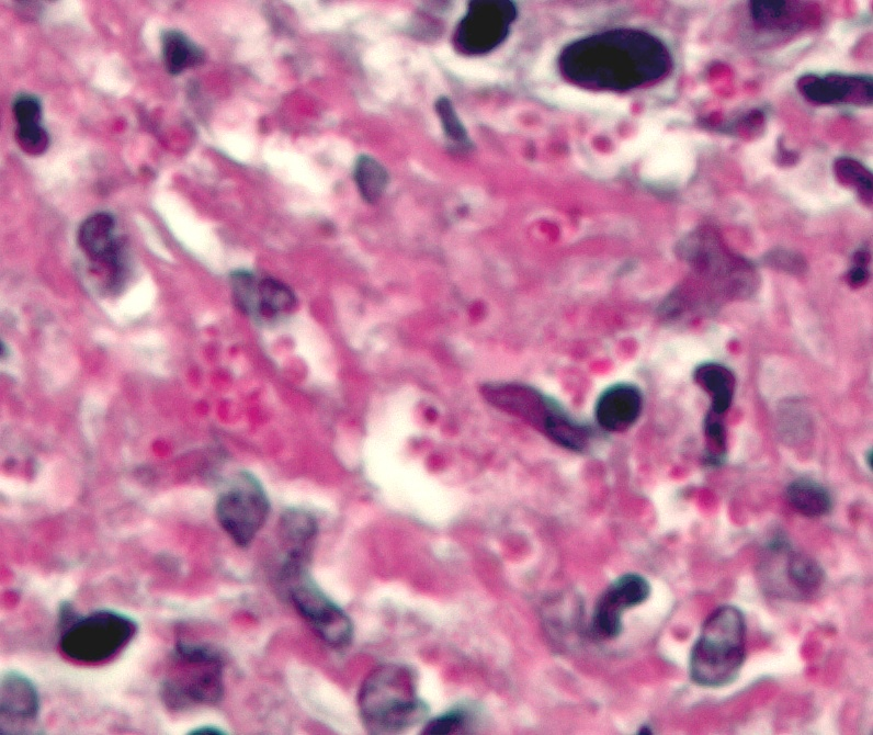 Micrograph showing Histoplasmosis. Liver biopsy. Periodic acid-Schiff diastase (PAS-D) stain. Histoplasma = clumps of small bright red circles. Related images PAS-D. PAS-D. PAS-D. GMS.